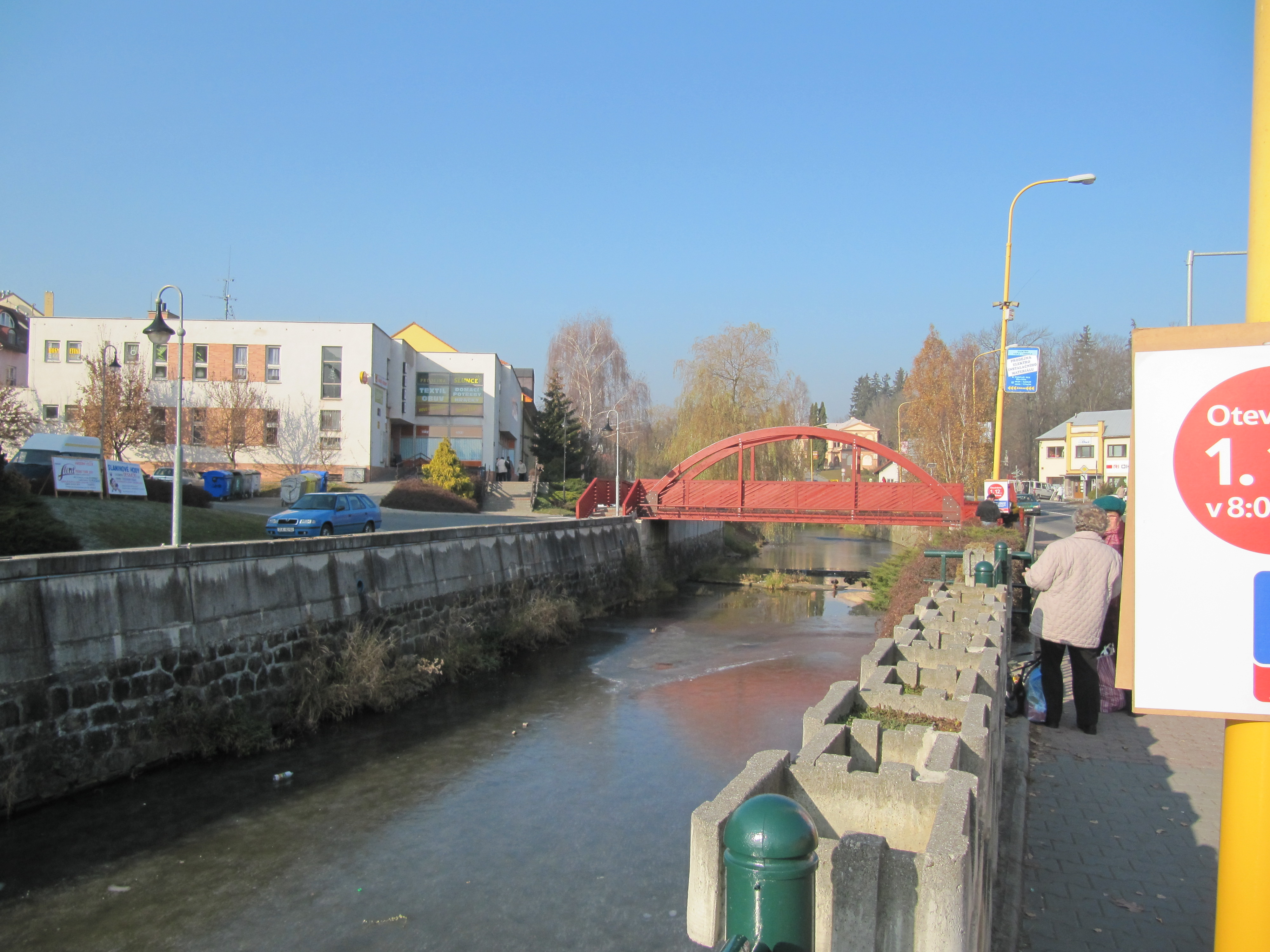 Slavičín in Zlín District, Czech Republic. Footbridge across the creek Říka.